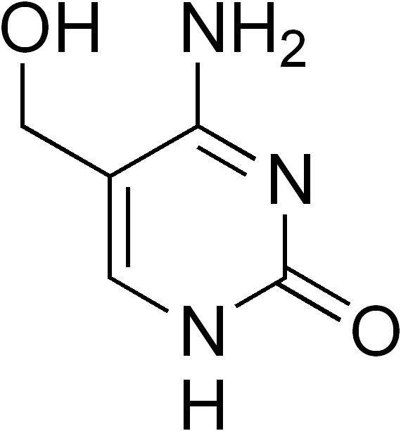 chemical structure of 5-Hydroxymethylcytosine